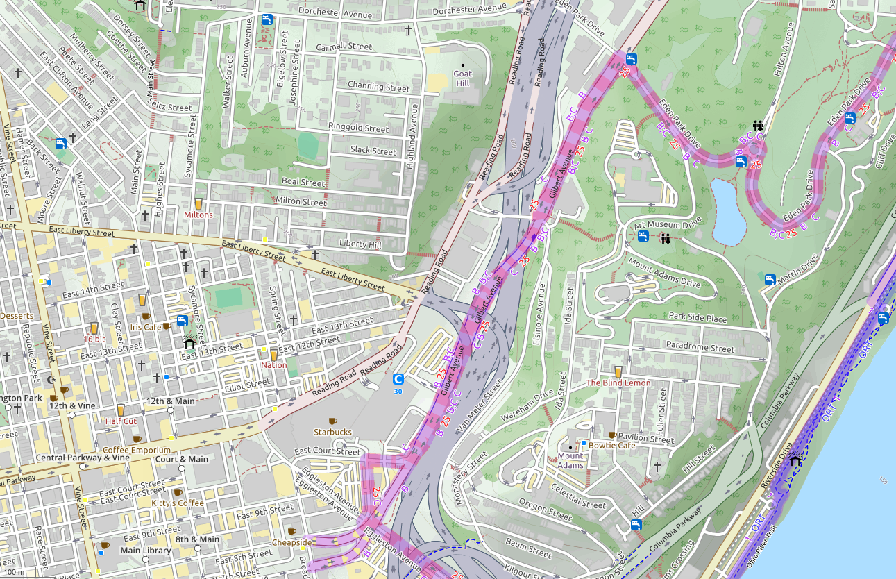 Screen capture of OpenStreetMap's cycling layer showing a location near downtown Cincinnati, Ohio. This map may be incomplete, and may contain errors. Don't rely solely on it for navigation.